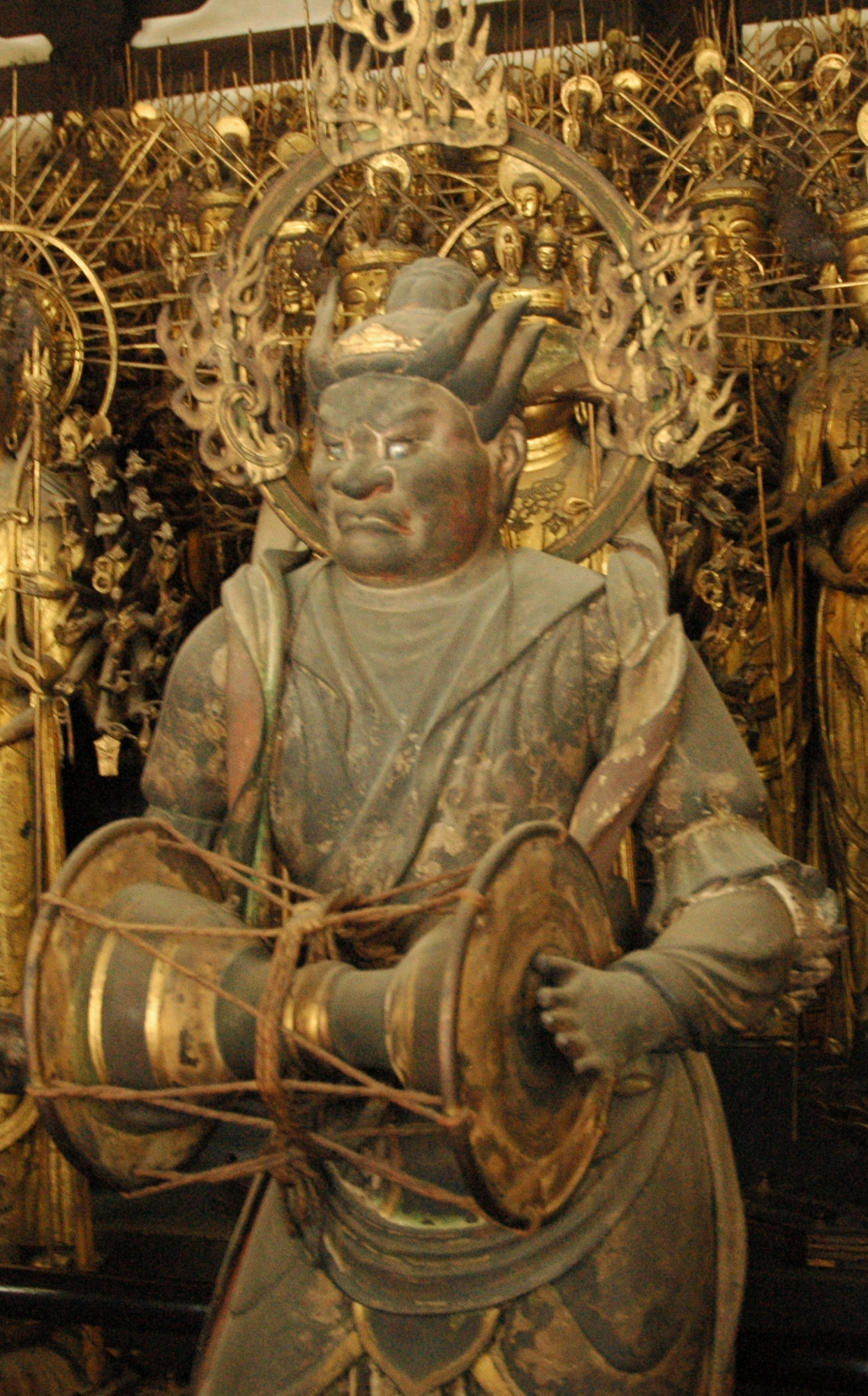 One of the Twenty eight attendants (木造二十八部衆立像, mokuzō nijūhachi bushū ryūzō) at Sanjūsangen-dō, Kyoto, Japan. This statue and all the others in the group of 28 statues have been designated as National Treasure of Japan.